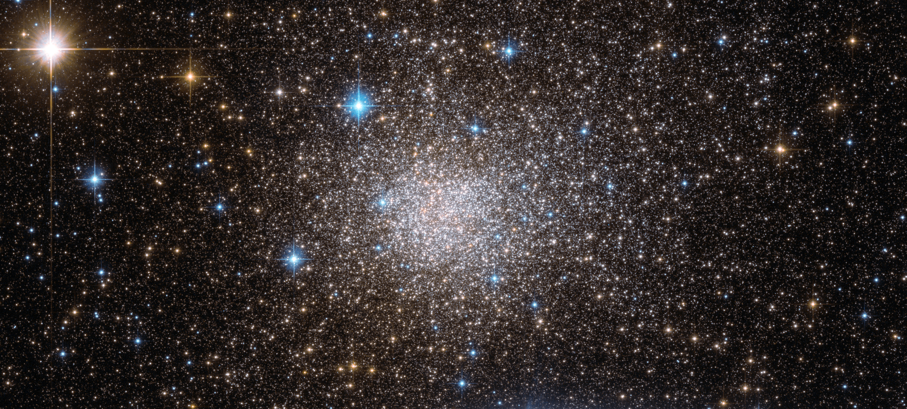 Deep within the Milky Way lies the ancient globular cluster Terzan 5. This NASA/ESA Hubble Space Telescope image shows the cluster in wonderful detail, but it is the chaotic motions of its stars that make it particularly interesting to astronomers. Terzan 5 has an exceptionally dense core. As a result, it is thought to have one of the highest stellar collision rates for a globular cluster. And packed in at such close quarters, many stars are pushed so close together that they form tight binary systems. Interestingly, studies of individual stars within the cluster reveal that they can be split into two age groups: 6 and 12 billion years old. Some astronomers have hypothesised that the younger crowd may have been stripped away from a dwarf galaxy. This picture was created from images taken with the Wide Field Channel of Hubble’s Advanced Camera for Surveys. Images through a yellow/red filter (F606W, coloured blue) have been combined with those through a near-infrared filter (F814W, coloured red) to create this composite picture. The total exposure times per filter were 340 s and 360 s, respectively and the field of view is 3.1 x 1.4 arcminutes.